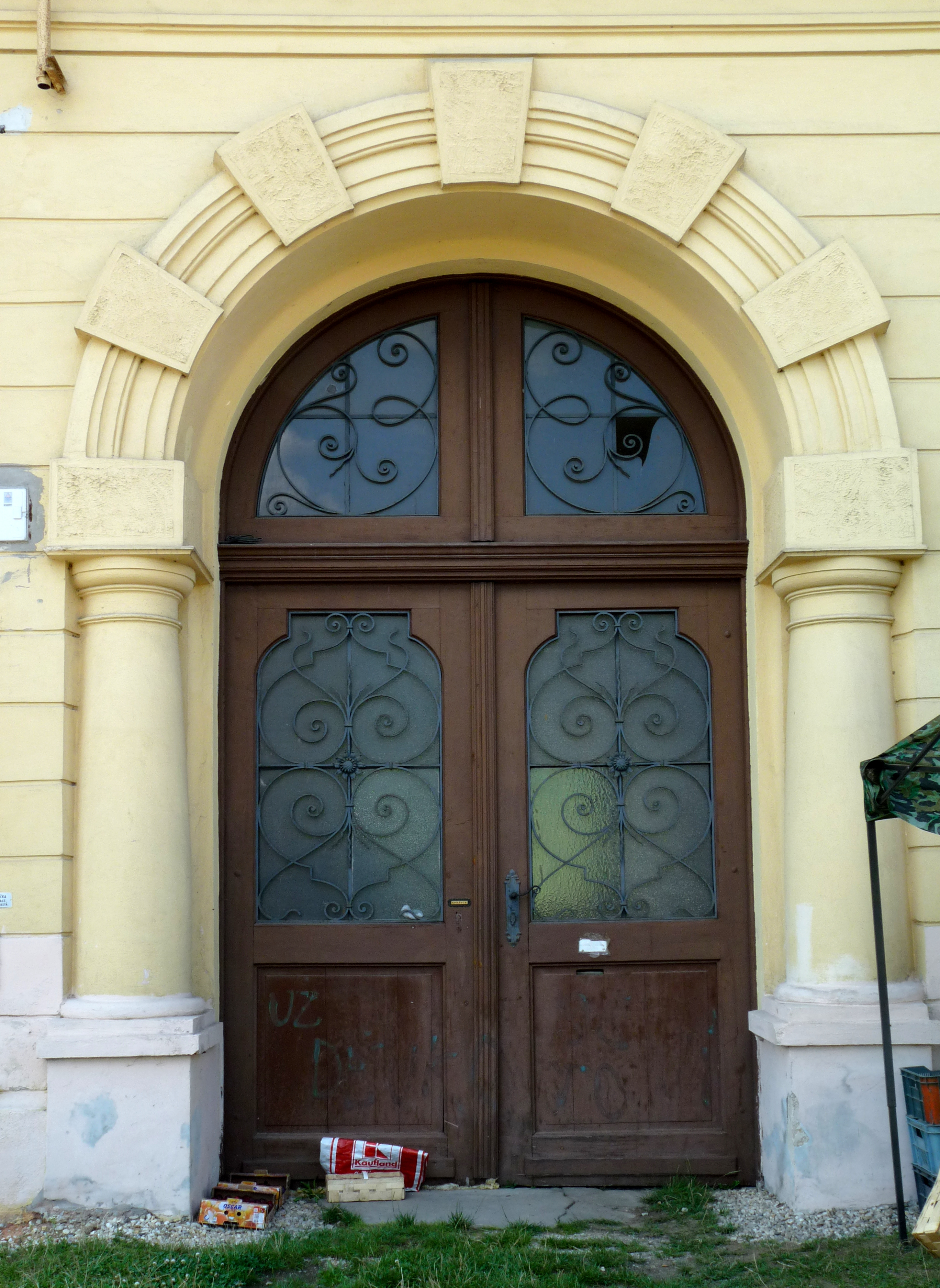 Door of the ceremonial hall in the Jewish cemetery in the town of Šumperk, Olomouc Region, Czech Republic.